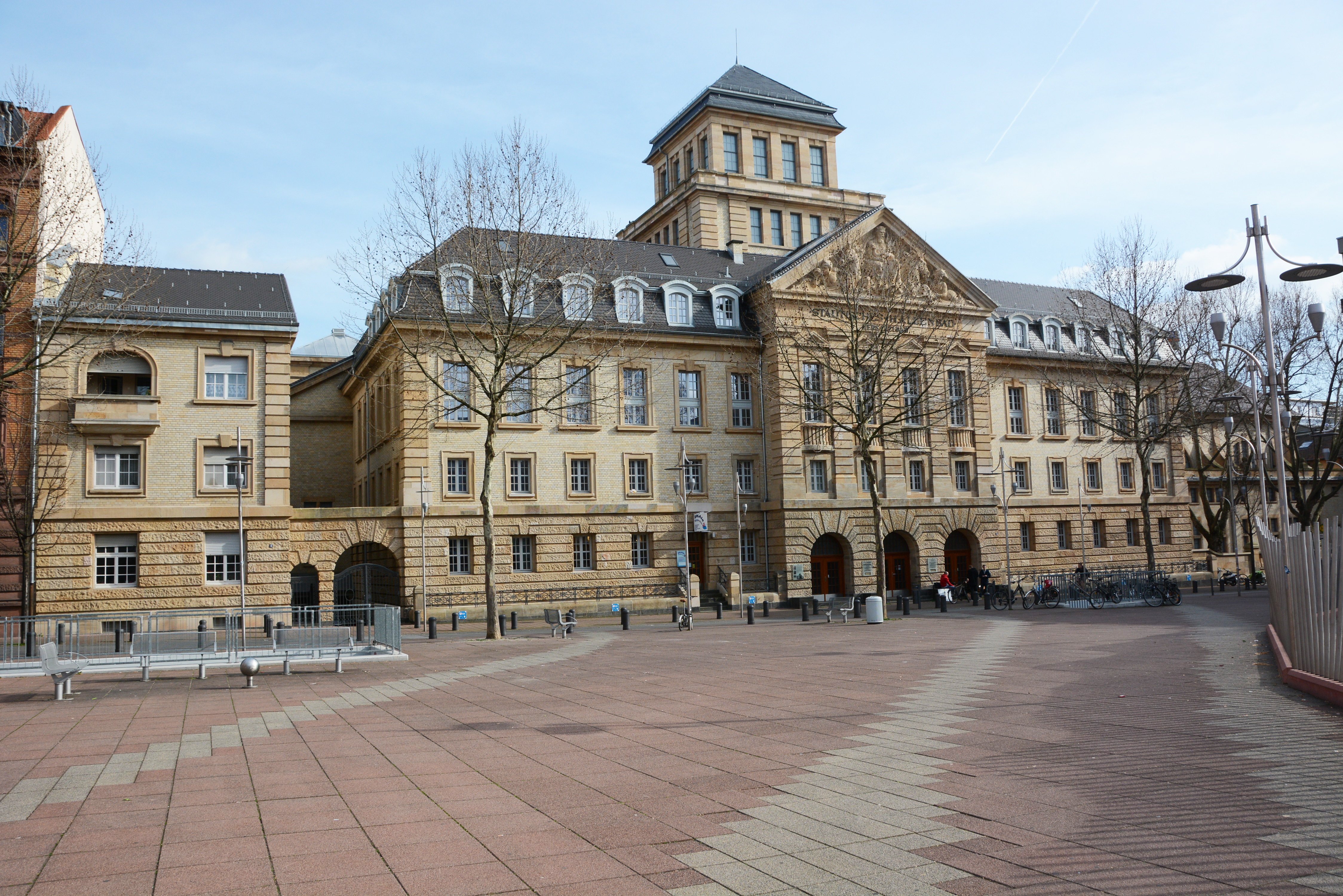 Herschelbad Mannheim, Germany, front